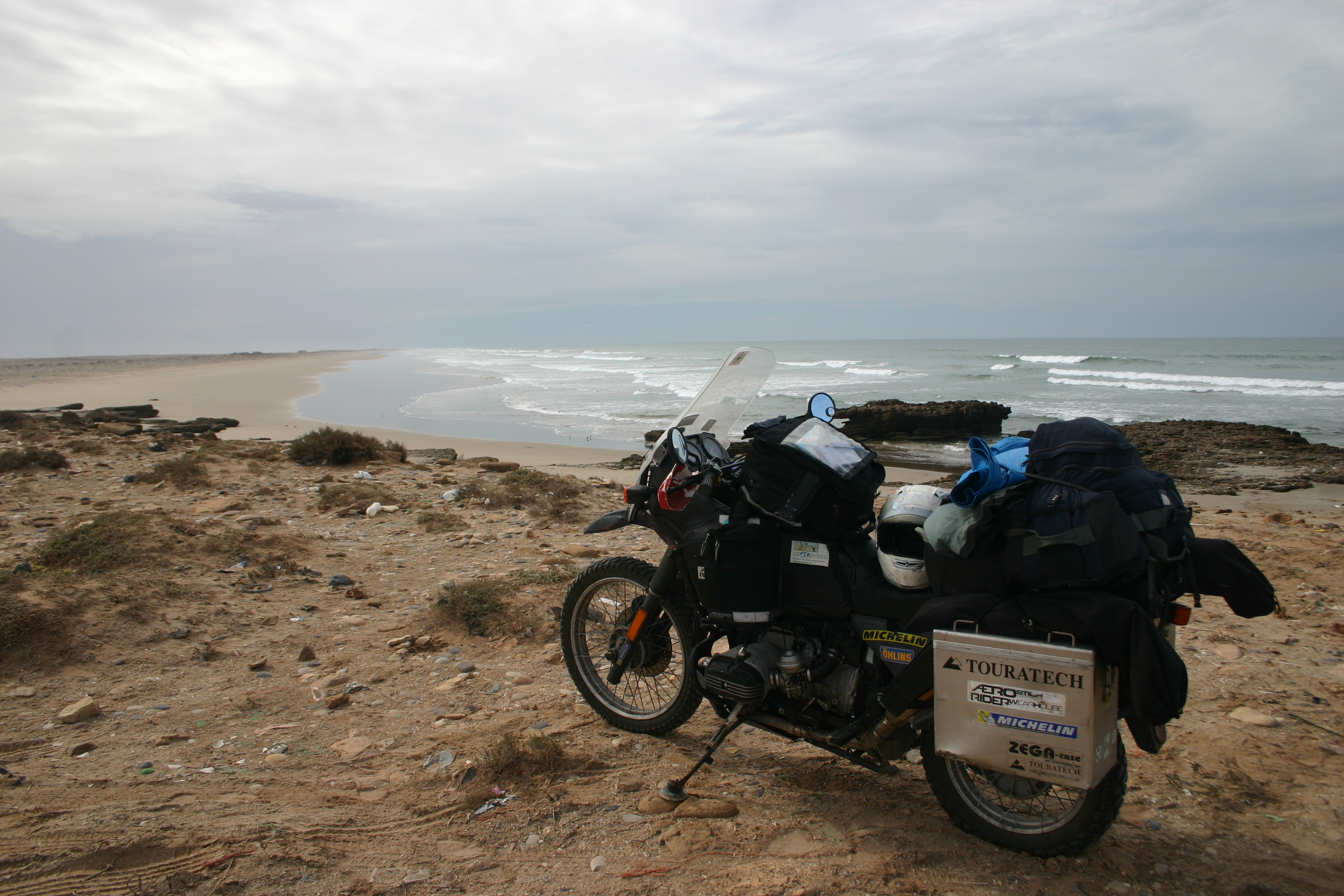 Author: Frederic Journoud (self). This picture is available to the public domain and is free of copyrights.